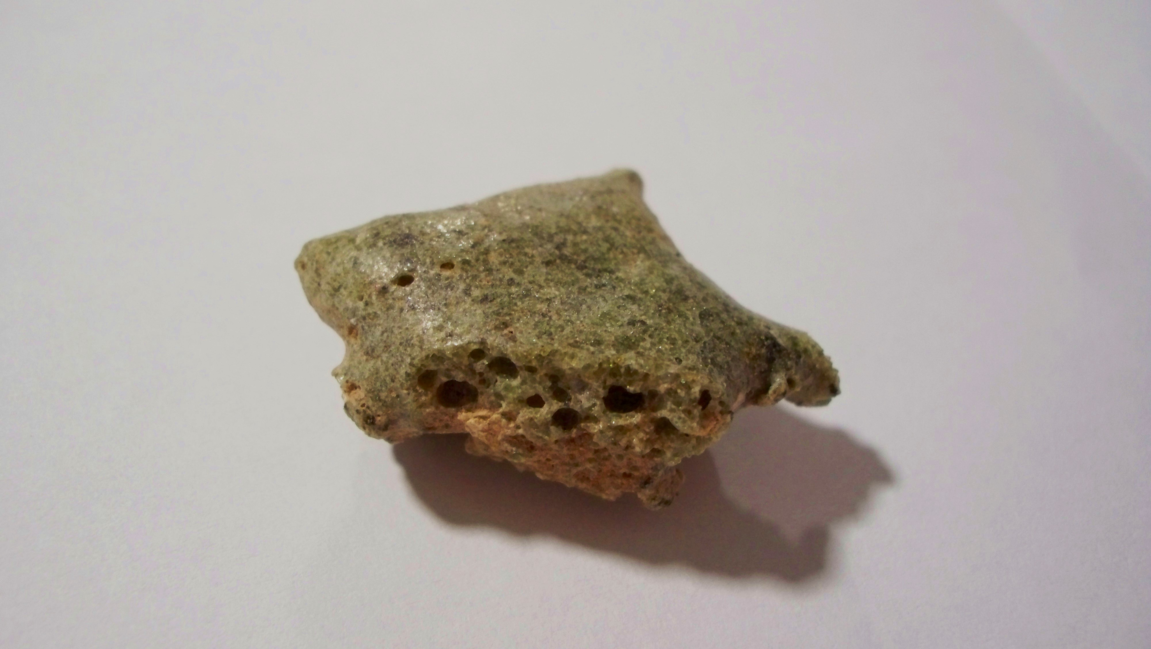 A piece of Trinitite, a glass-like matter that developed from desert sand by the explosion of the first atomic bomb on 16.07.1945 at the Trinity Test Site in New Mexico.